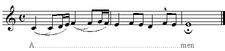 Made by Gebruiker:Juni Source: Ancient coptics